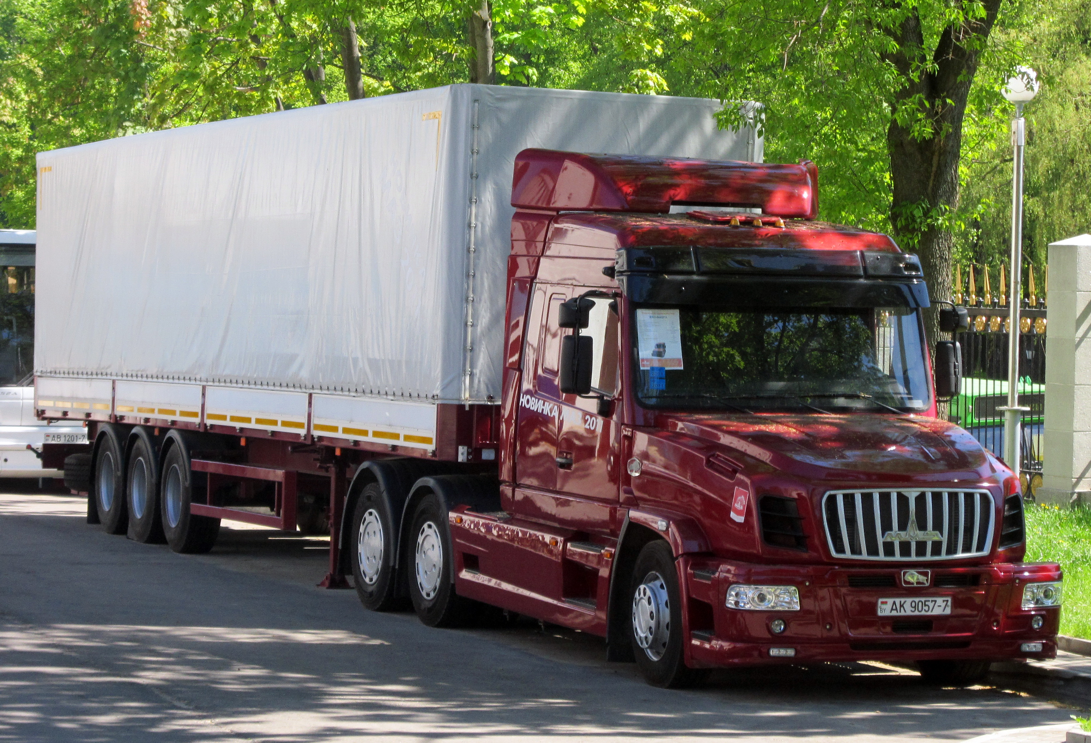 MAZ-6440 (Minsk, Belarus)